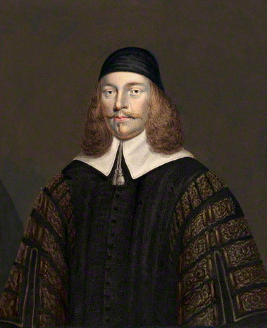 A portrait of Sir Thomas Widdrington (circa 2015 1600 – 13 May 1664), an English judge and politician who sat in the House of Commons at various times between 1640 and 1664. He was speaker of the House of Commons in 1656.